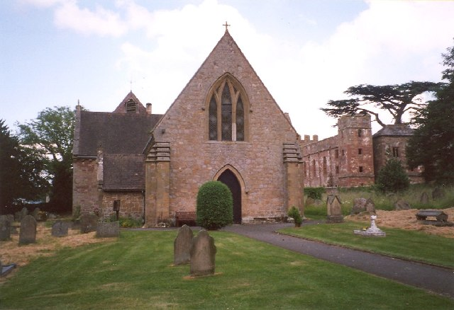 Acton Burnell Church and Castle. An example of church, castle and also a later hall, being close together. St Mary's Church is mainly 13C, with a Victorian tower. The castle is actually a fortified manor house, the oldest example in England. It was built by Robert Burnell c.1284. Each corner has a tower 12m high. There also is a huge barn, older than the house and said to have been used for a meeting of Parliament.